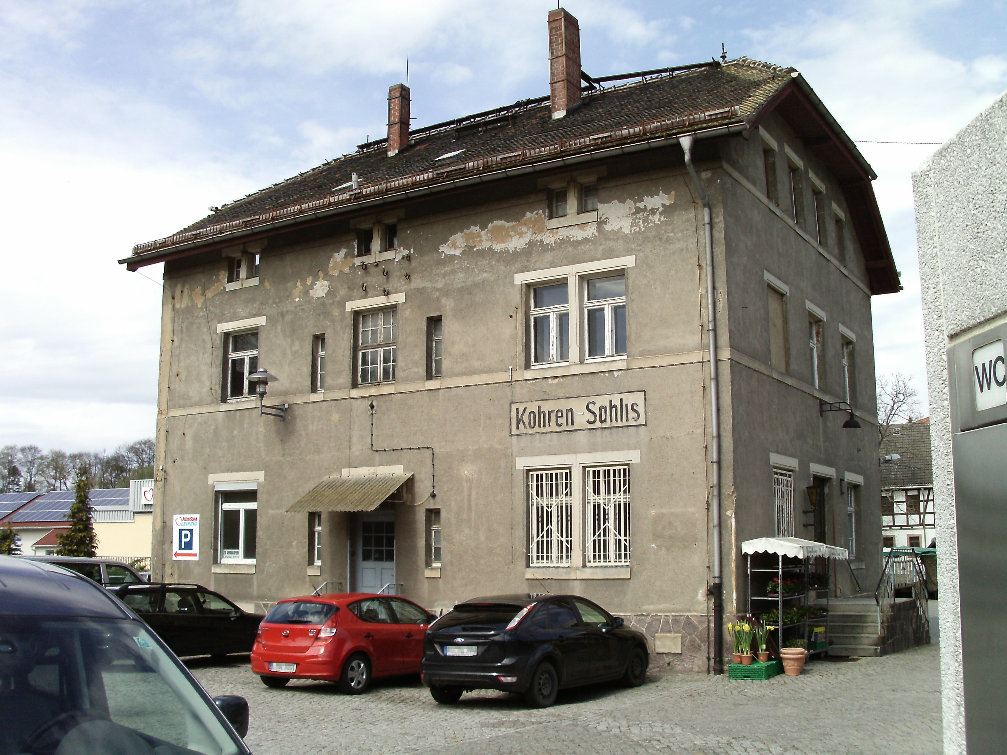 Former Kohren-Sahlis train station (Leipzig district, Saxony)